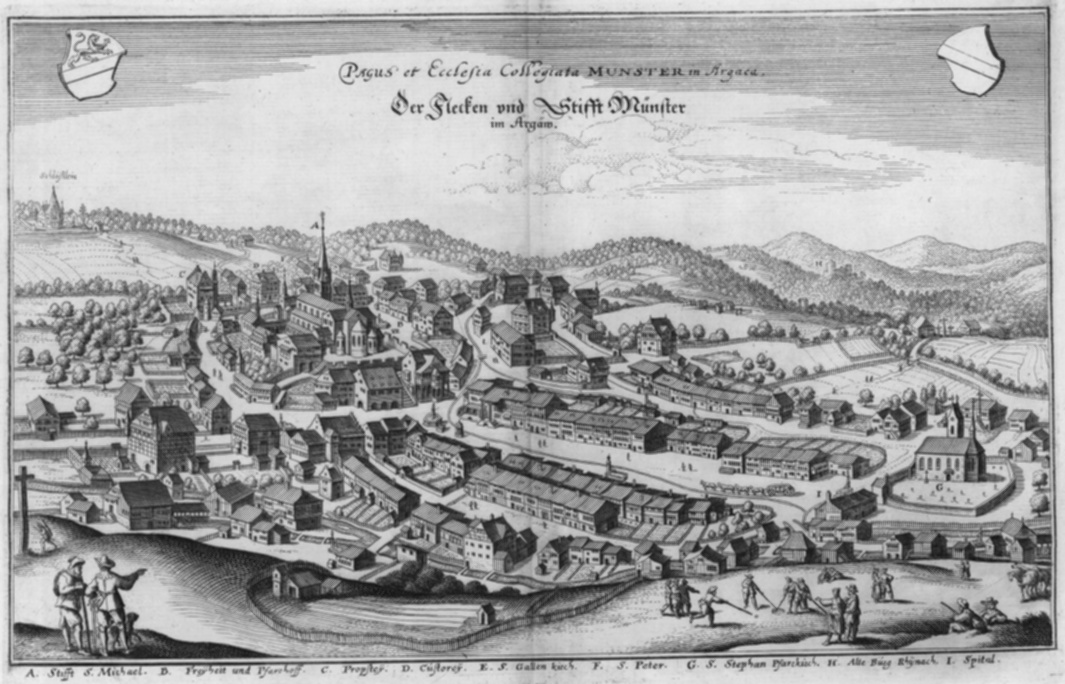 Münster im Aargau in 1654, now Beromünster, Luzern Canton, Switzerland